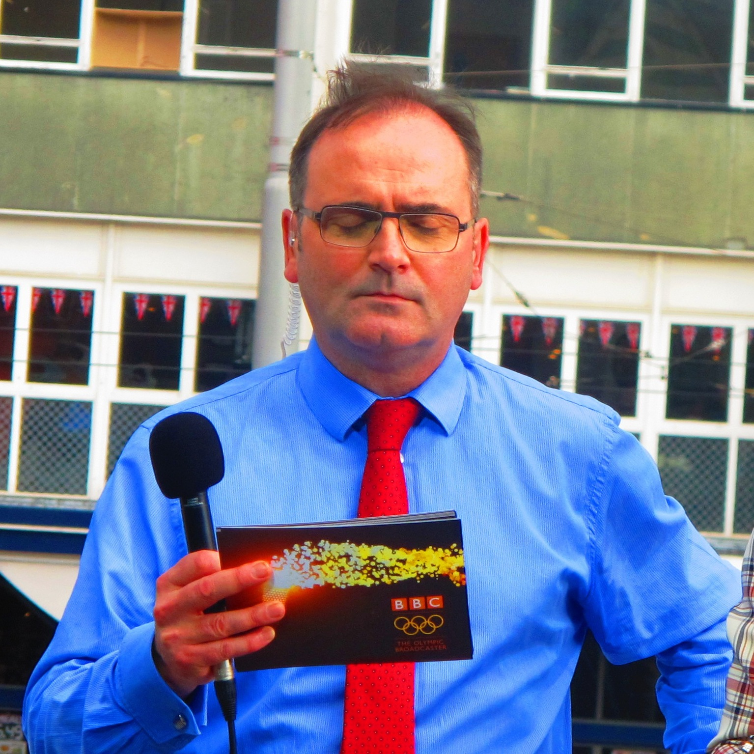 Dominic Heale and Anne Davies BBC local TV presenters for East Midlands Today.